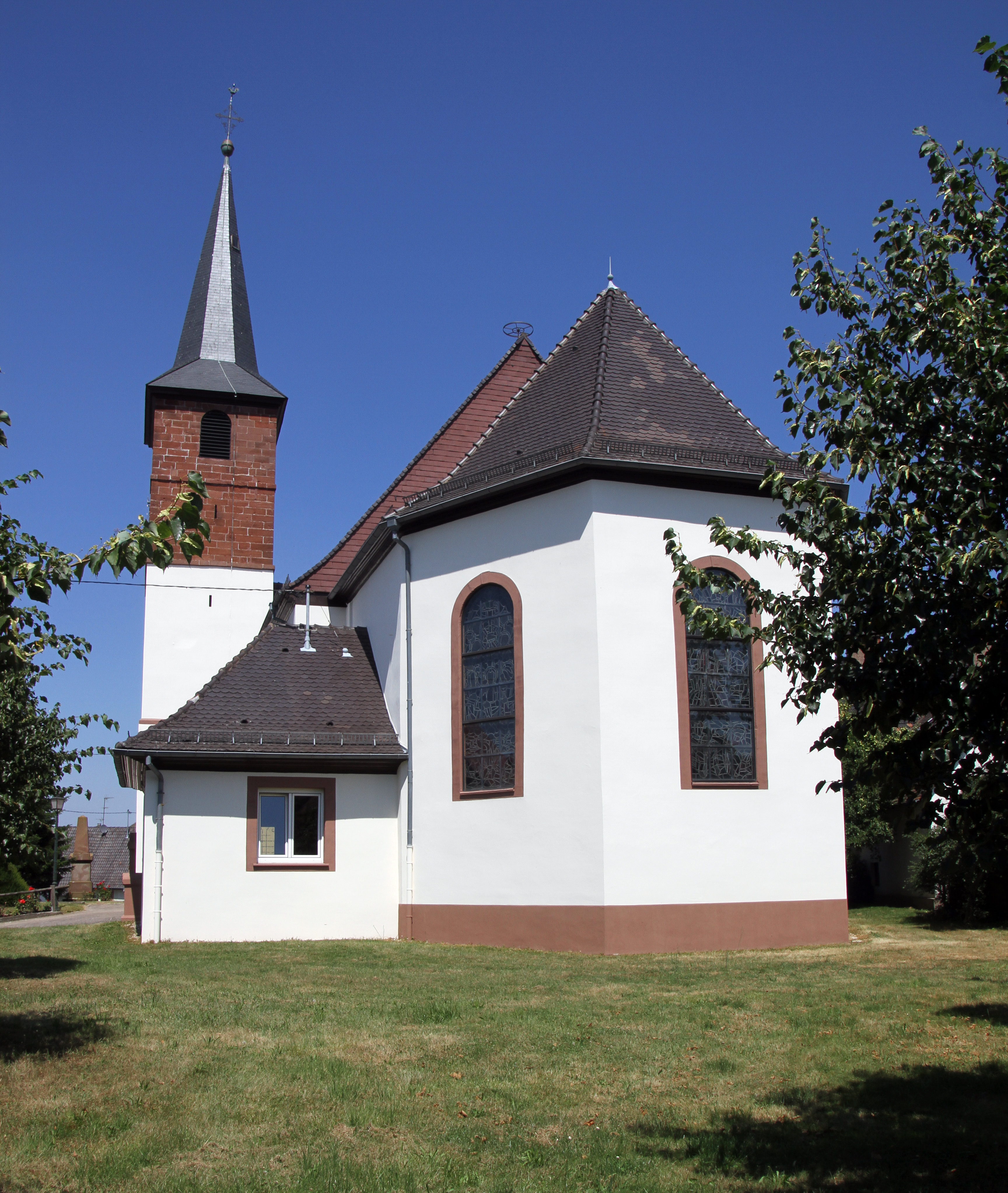 Church of Saint Stephen in Salmbach.